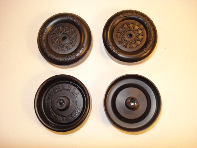 Stock Pinewood Derby wheels (left) and modified (one gram) wheels (right); front (top) and rear (bottom) views (note the mold #7 indicated at the 3 o'clock position on the lower left wheel).